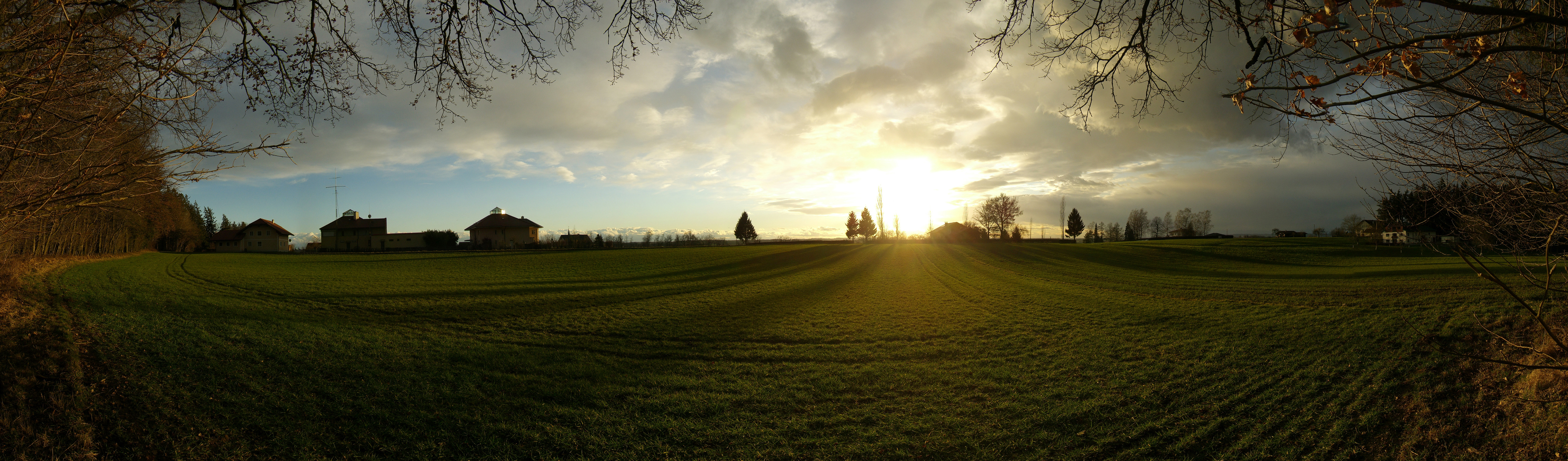 Sundown taken in Innviertel (exactly Wollöster, Burgkirchen). This is a 2x14 segment Panorama.